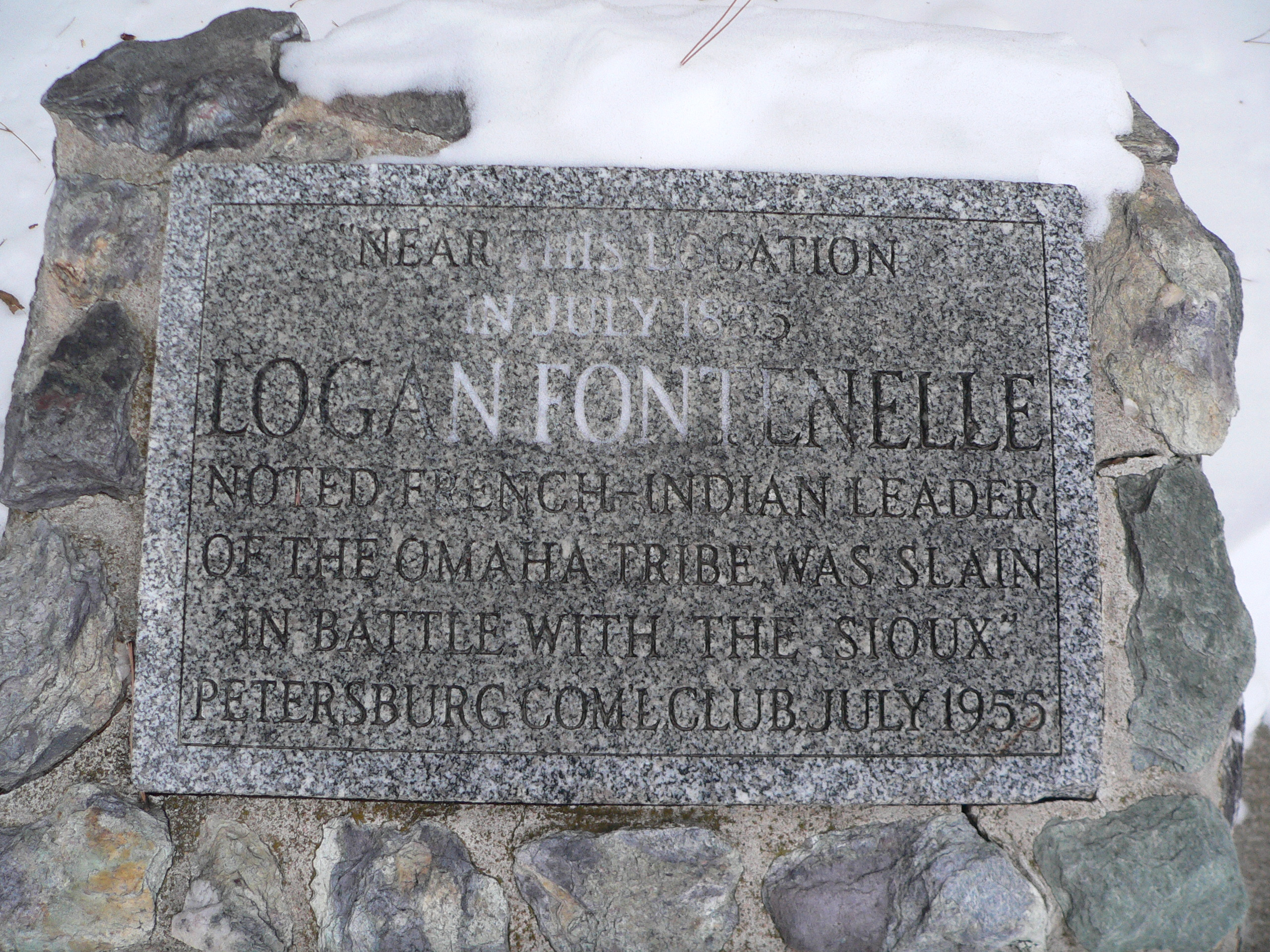 1955 monument in Petersburg, Nebraska, commemorating the nearby death of Omaha chief Logan Fontenelle in 1855.